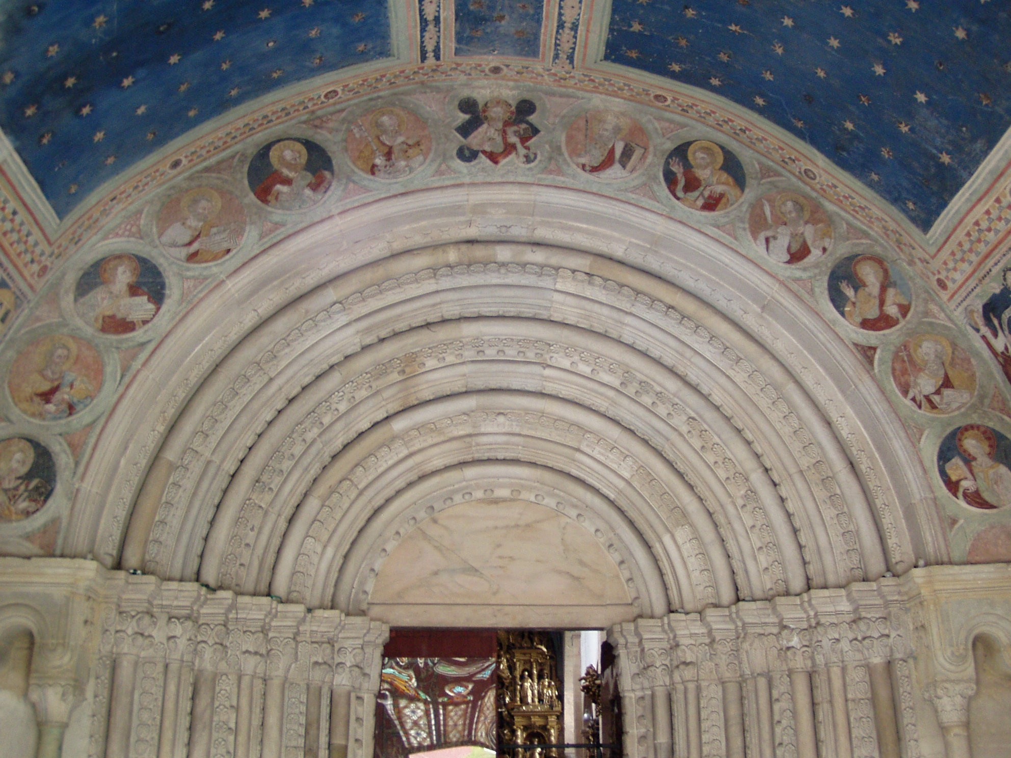 Cathedral of Gurk, Westportal/Dom zu Gurk: Westportal